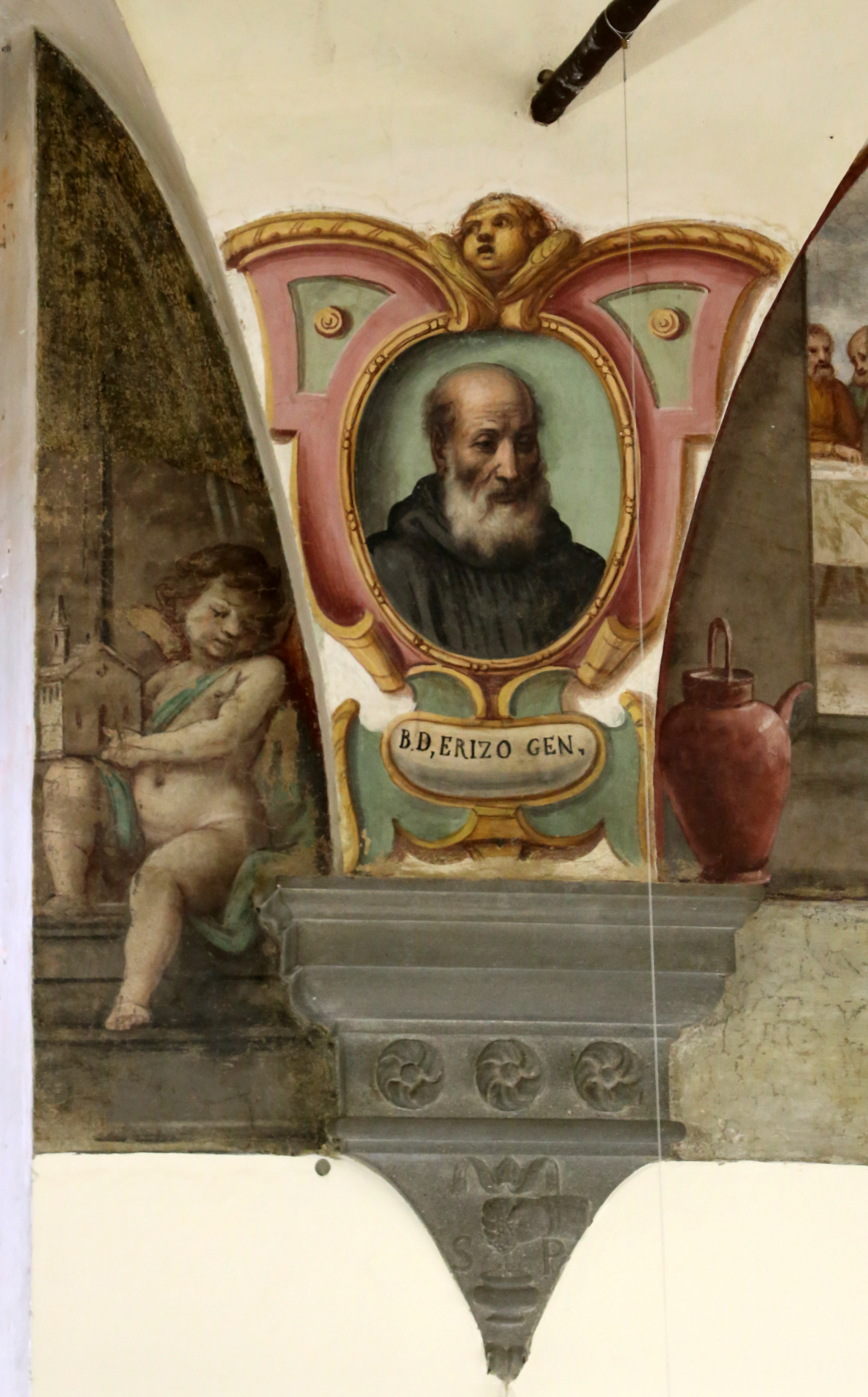 Santa Trinita (Florence) - Ex-Refectory